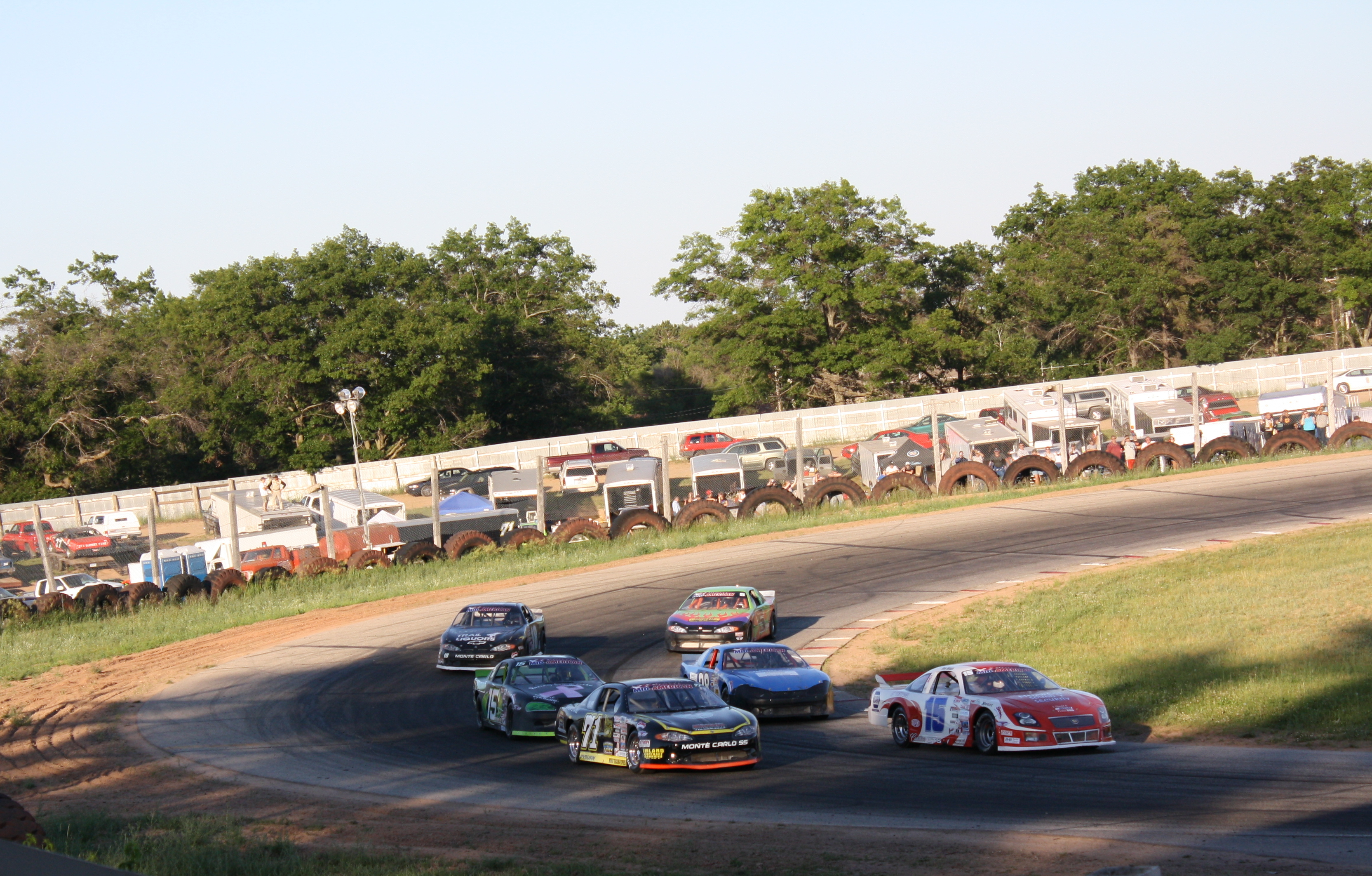 Mid American Stock Cars lined up for a heat race at Norway Speedway (Norway, Michigan)